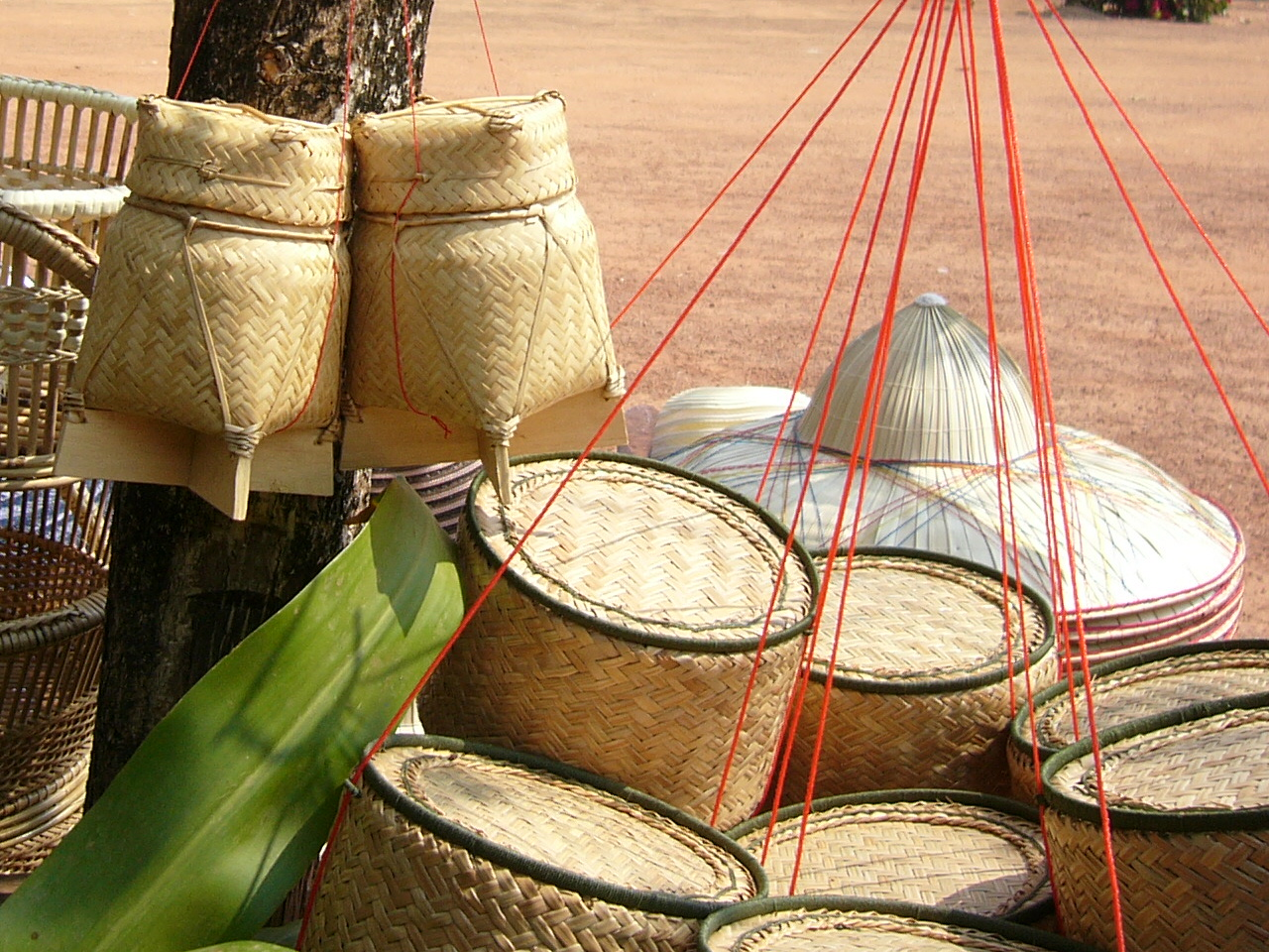 Different unused Kratip Khao (bamboo containers for sticy rice used by Isaan people, seen in Wat Kham Chanot, Ban Dung province)